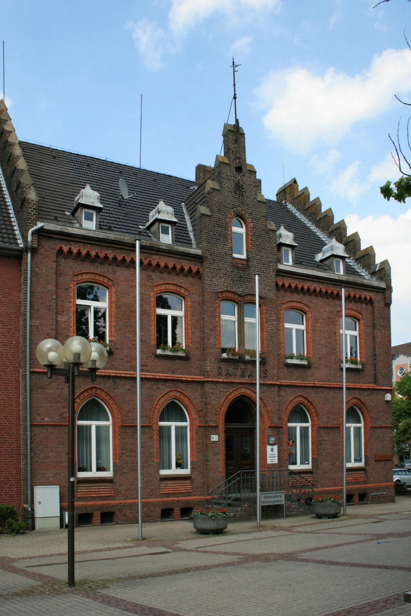 Cultural heritage monument No. K 024 in Mönchengladbach